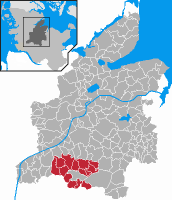 This map shows the area of the Amt (county) Hohenwestedt-Land in the Kreis (district) Rendsburg-Eckernförde, Schleswig-Holstein, Germany.